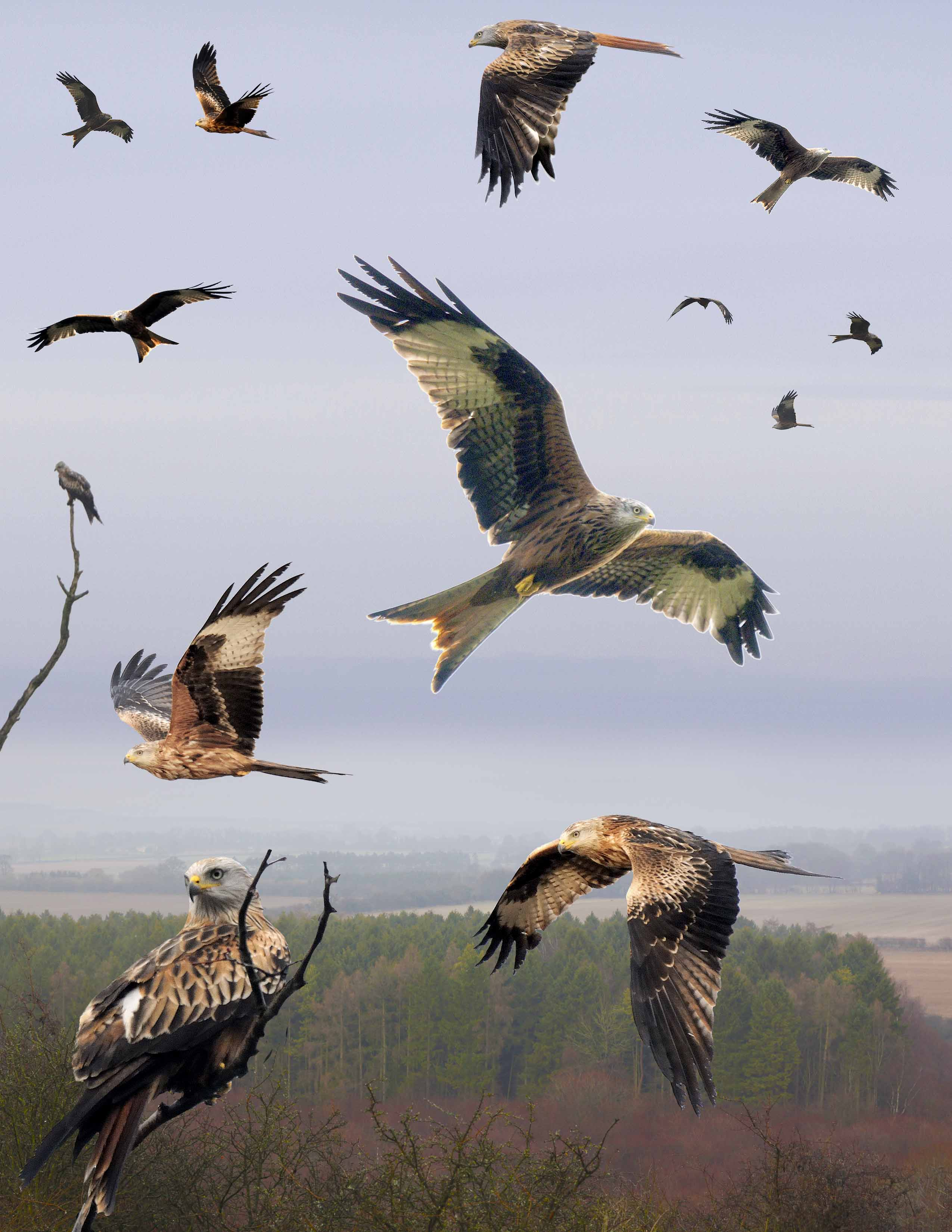 Red Kite from the Crossley ID Guide Britain and Ireland